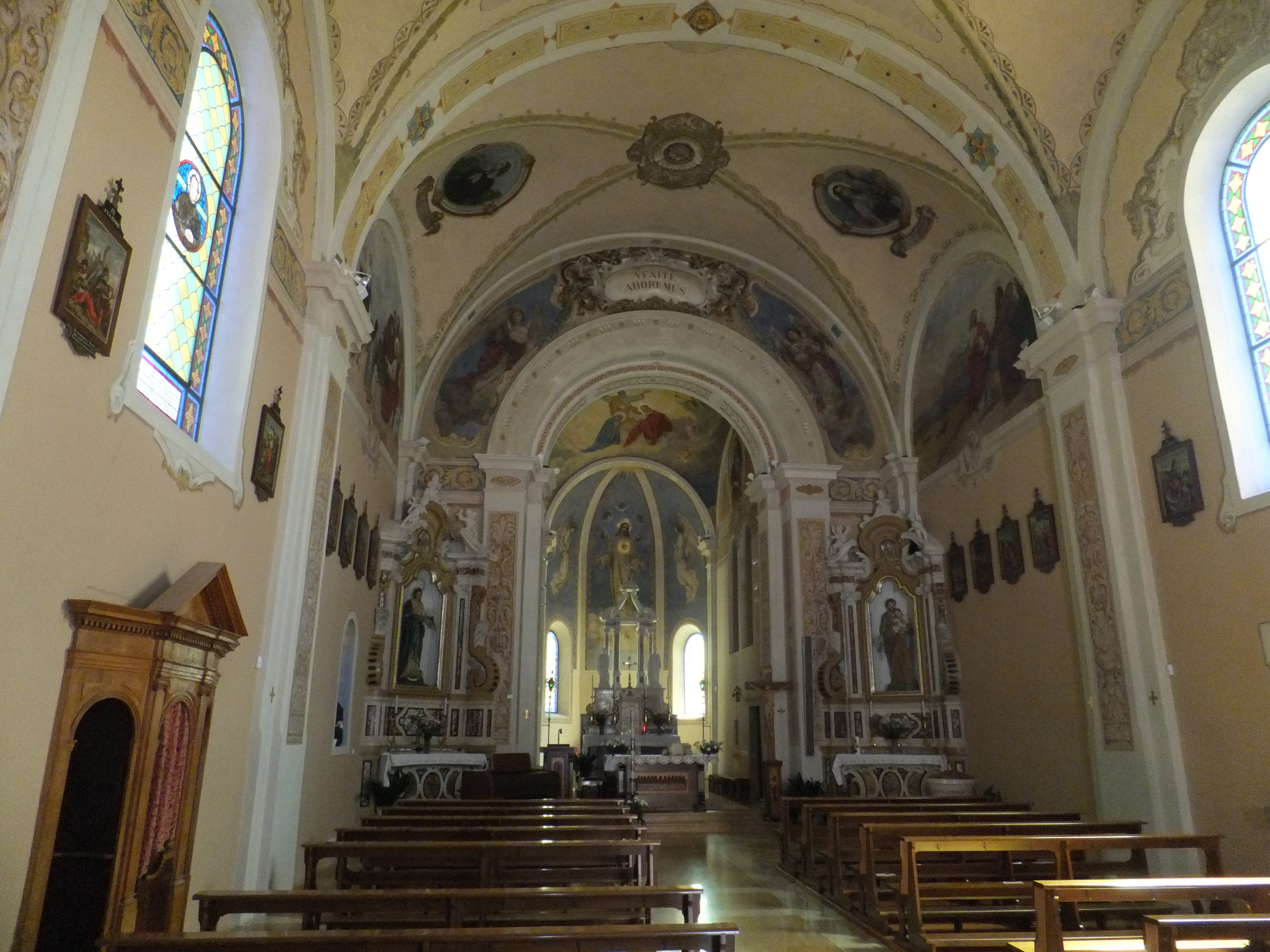 Bosentino (Trentino, Italy) - Church of Saint Joseph - Inside